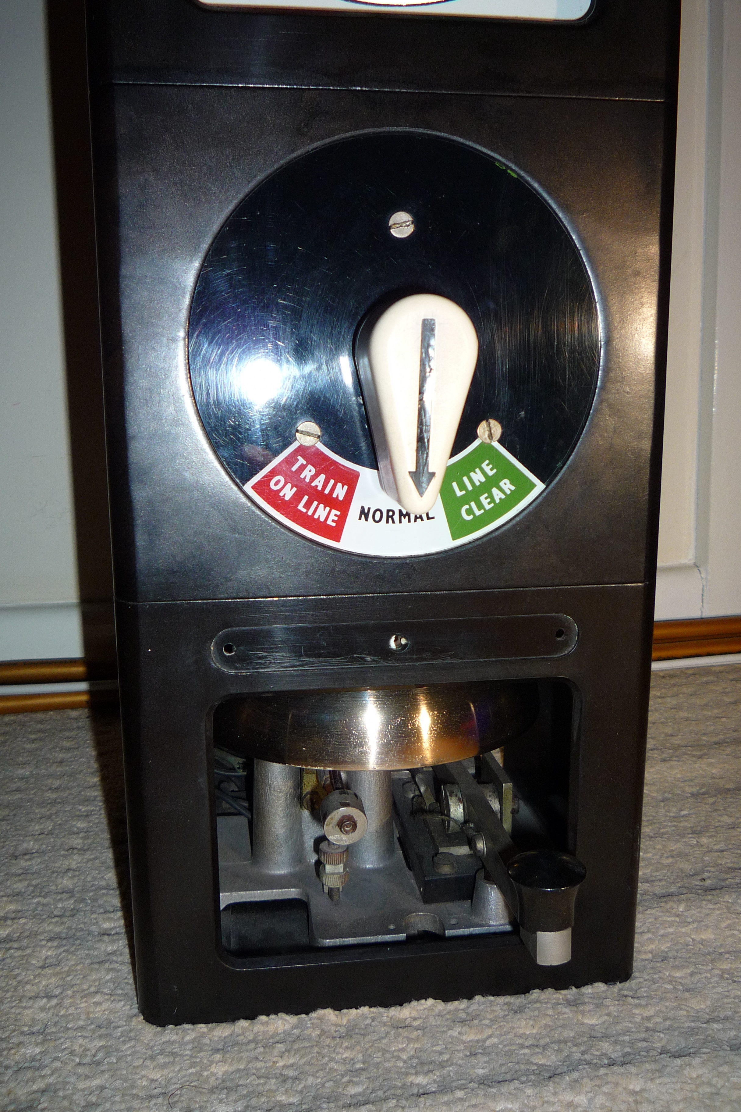 Close Up of the commutator, Tapper and bell Mechanism. All housed in a compact Bakelite case.